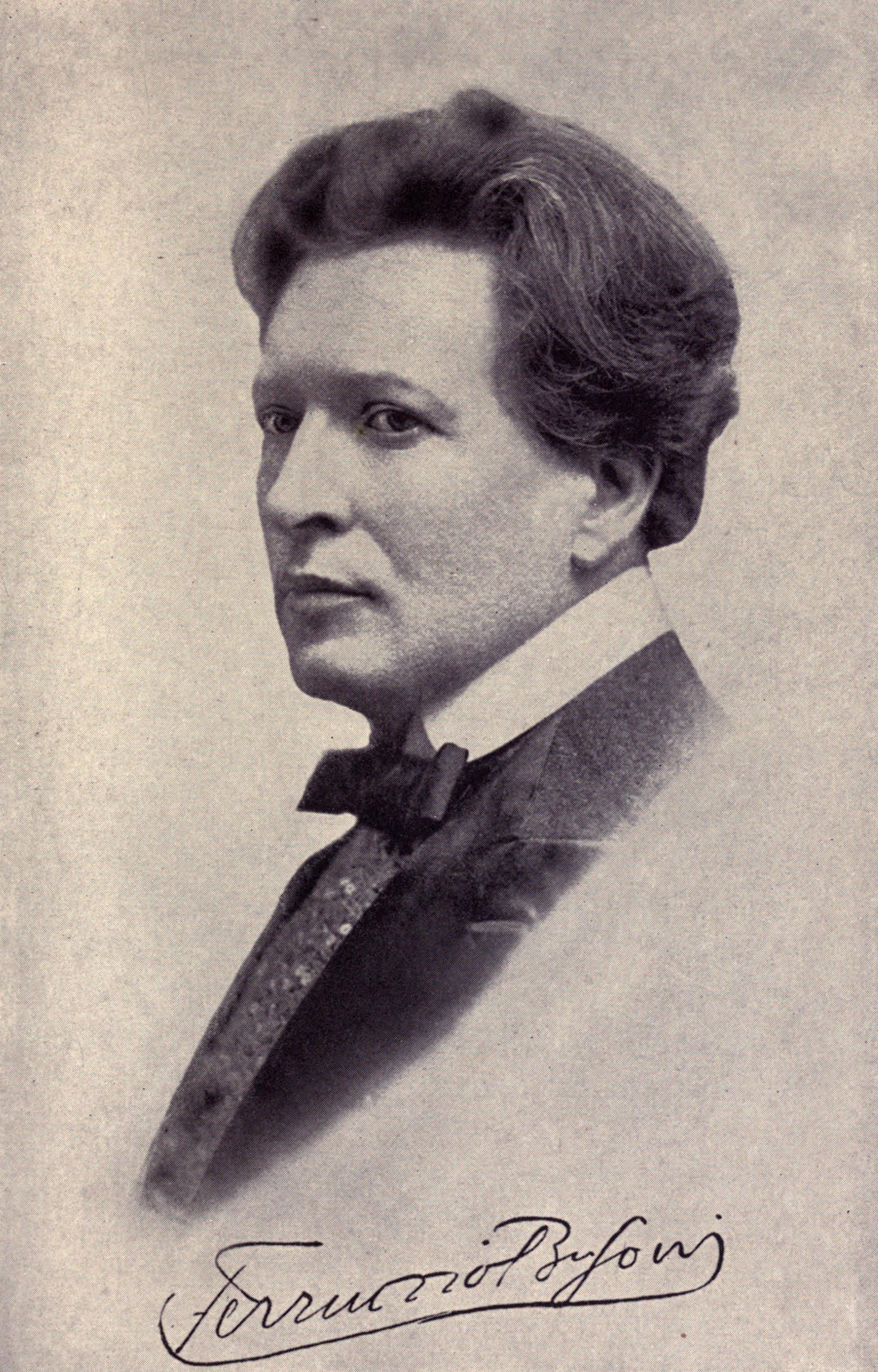 Photograph of Ferruccio Busoni, an Italian pianist based in Germany who toured the United States several times